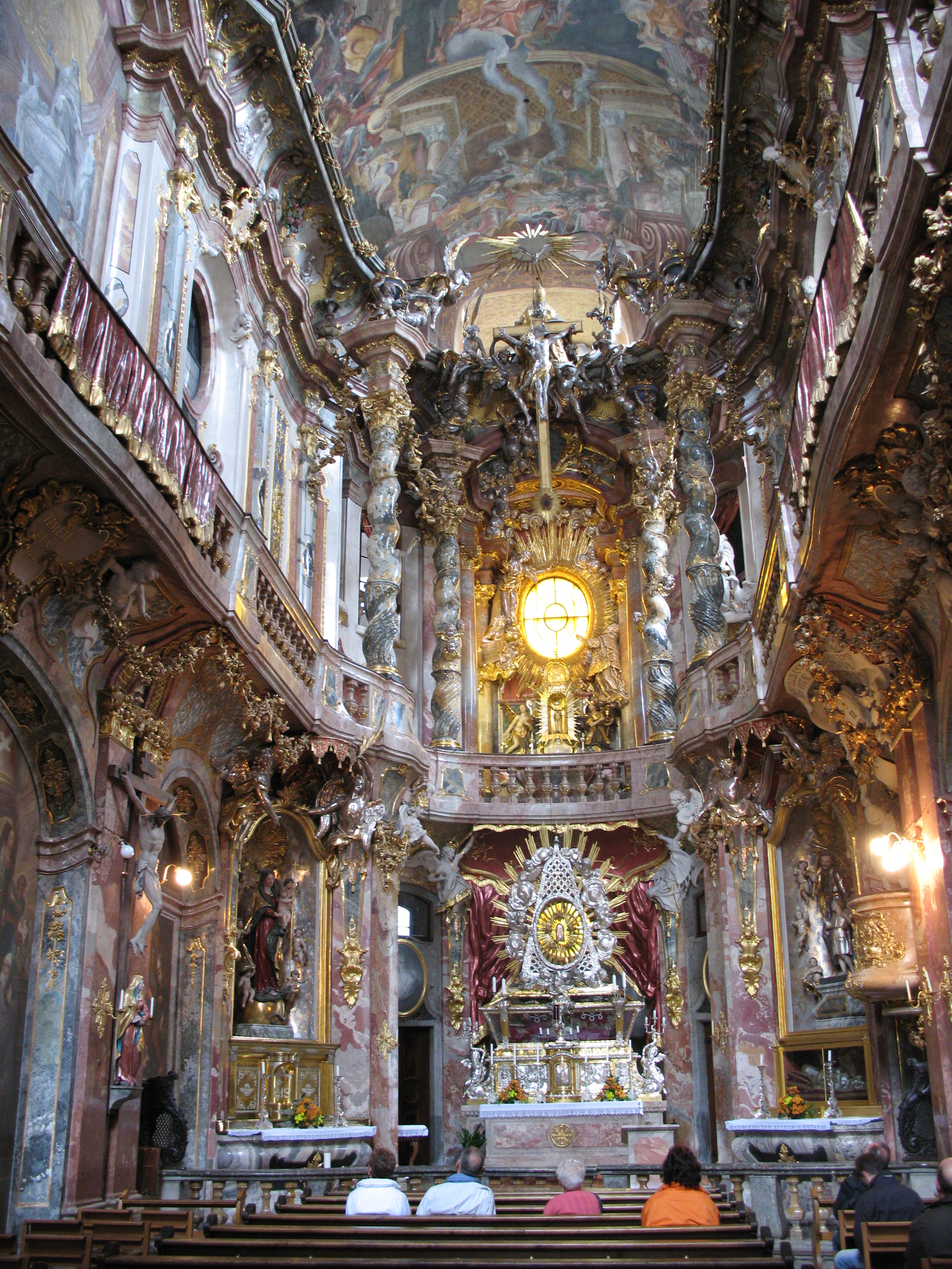 Asam's Church, Munich, Germany